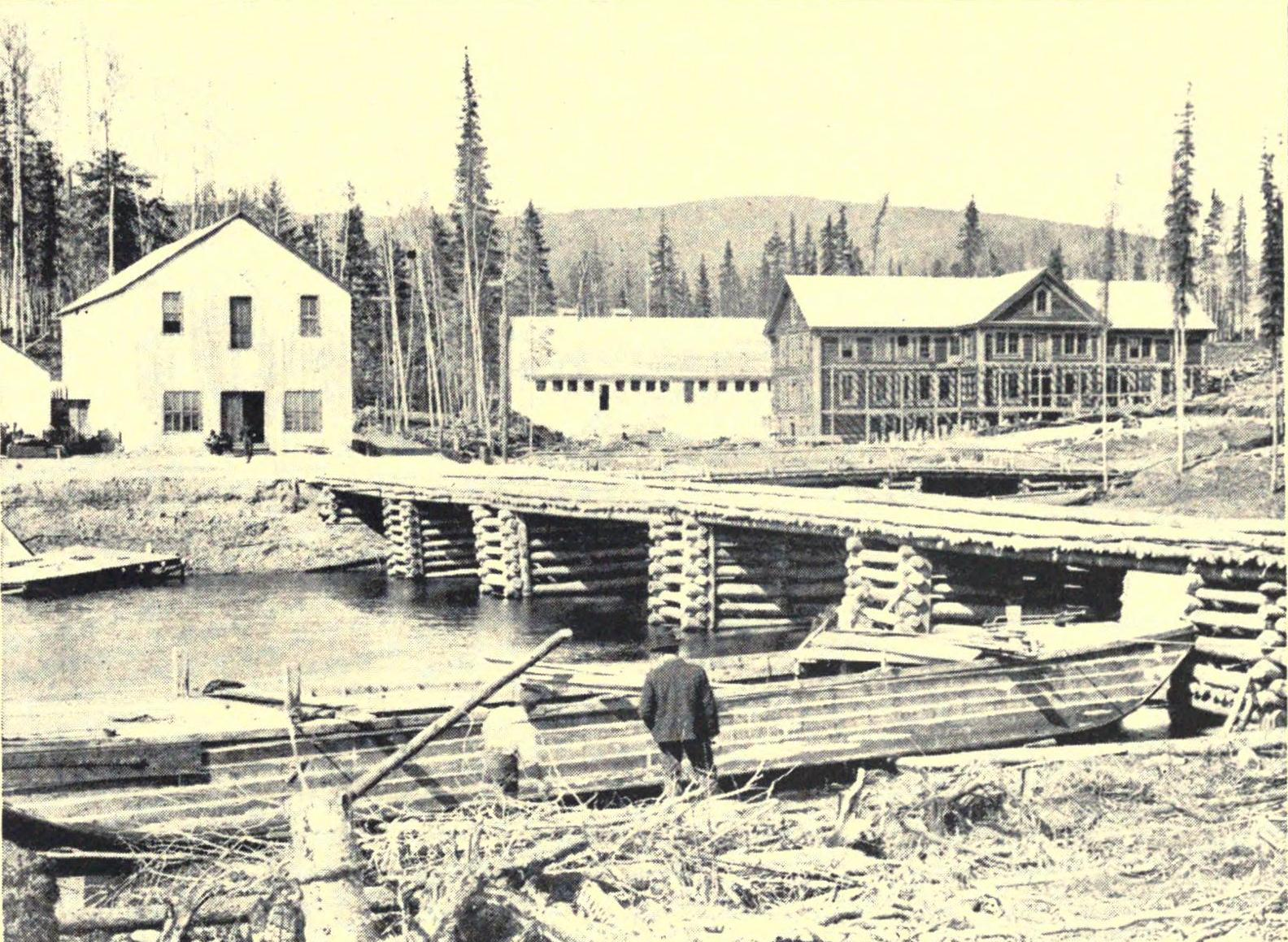 Manley's Hotel, at what is now Manley Hot Springs, Alaska. This was both a tourist and an agricultural enterprise; the barge on the slough presumably provided communication with the outside world, meeting steamboats that ran on the Tanana River.